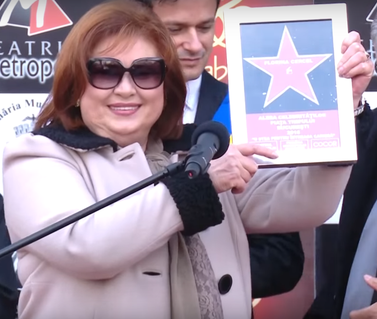 Florina Cercel